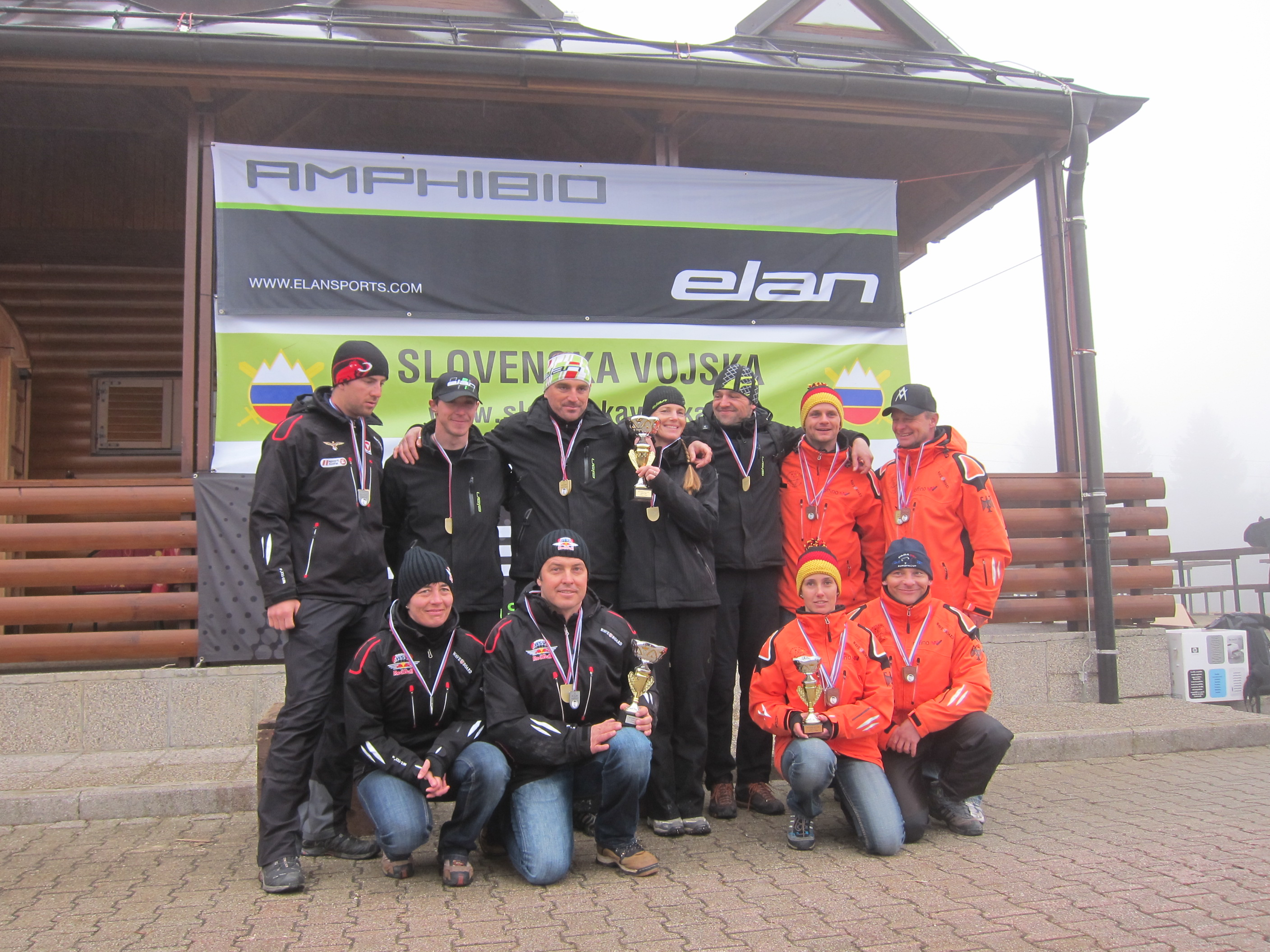 Winner Teams Paraski EC 2011